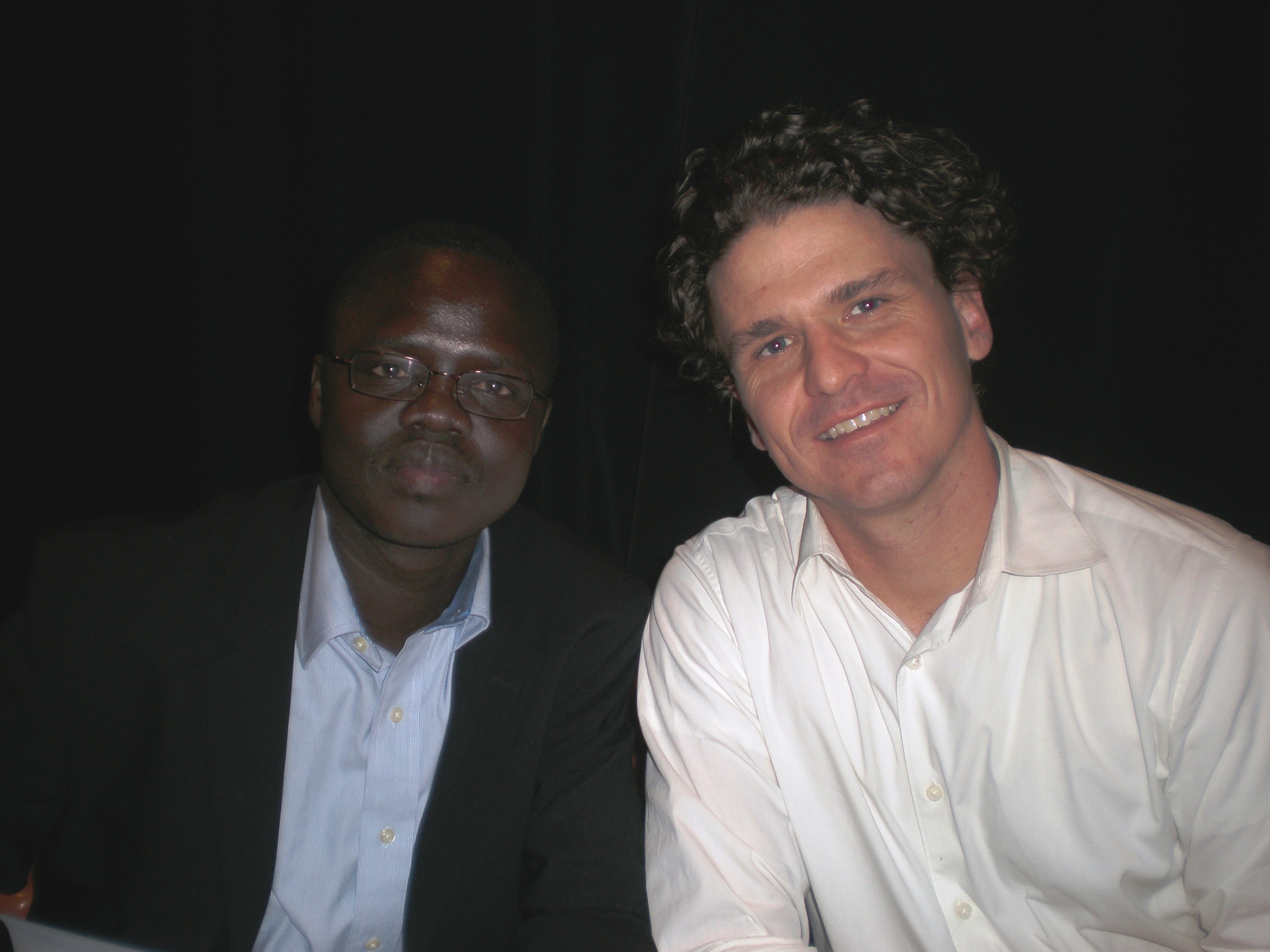 Author Dave Eggers (right) and Valentino Achak Deng, the subject of Eggers' novel What is the What signing books following a discussion of What is the What in San Mateo, California.